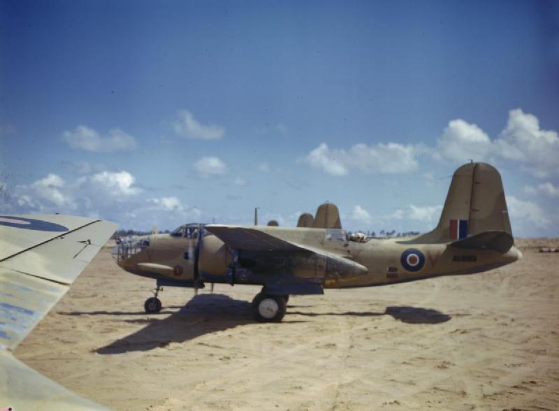 Douglas Boston aircraft of No 24 Squadron, South African Air Force lined up at Zuara, Tripolitania. The nearest is AL683/'V'.